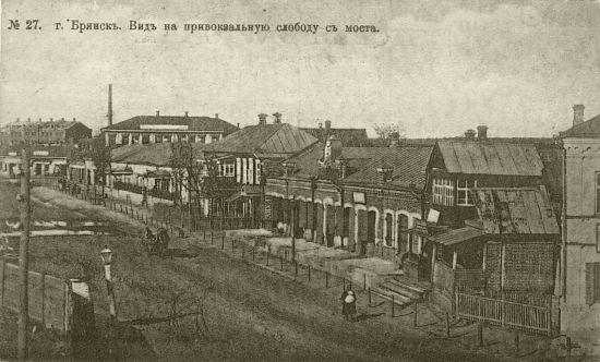 Bryansk city near railway station. About 1910.